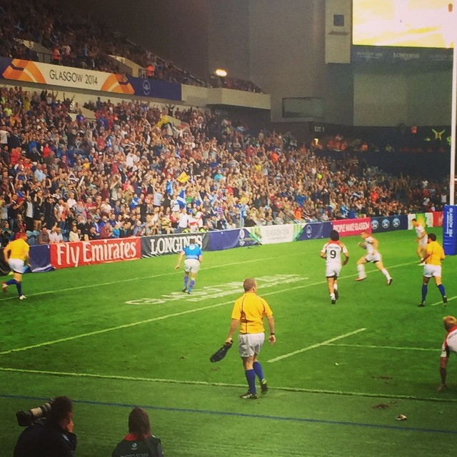 Canada vs Scotland at the 2014 Commonwealth Games rugby sevens competition.